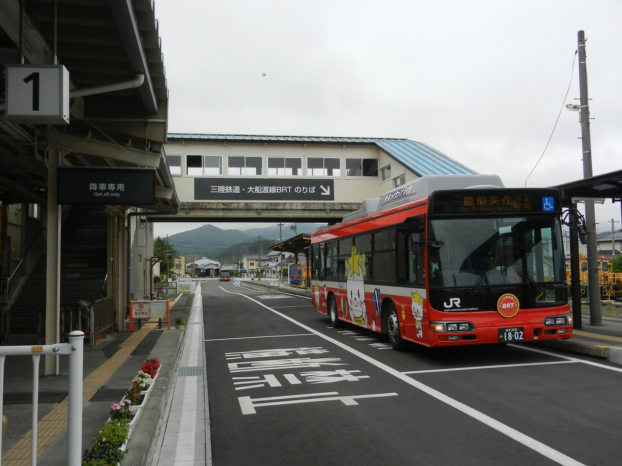 JR East Ofunato line Sakari station BRT pratform No.2